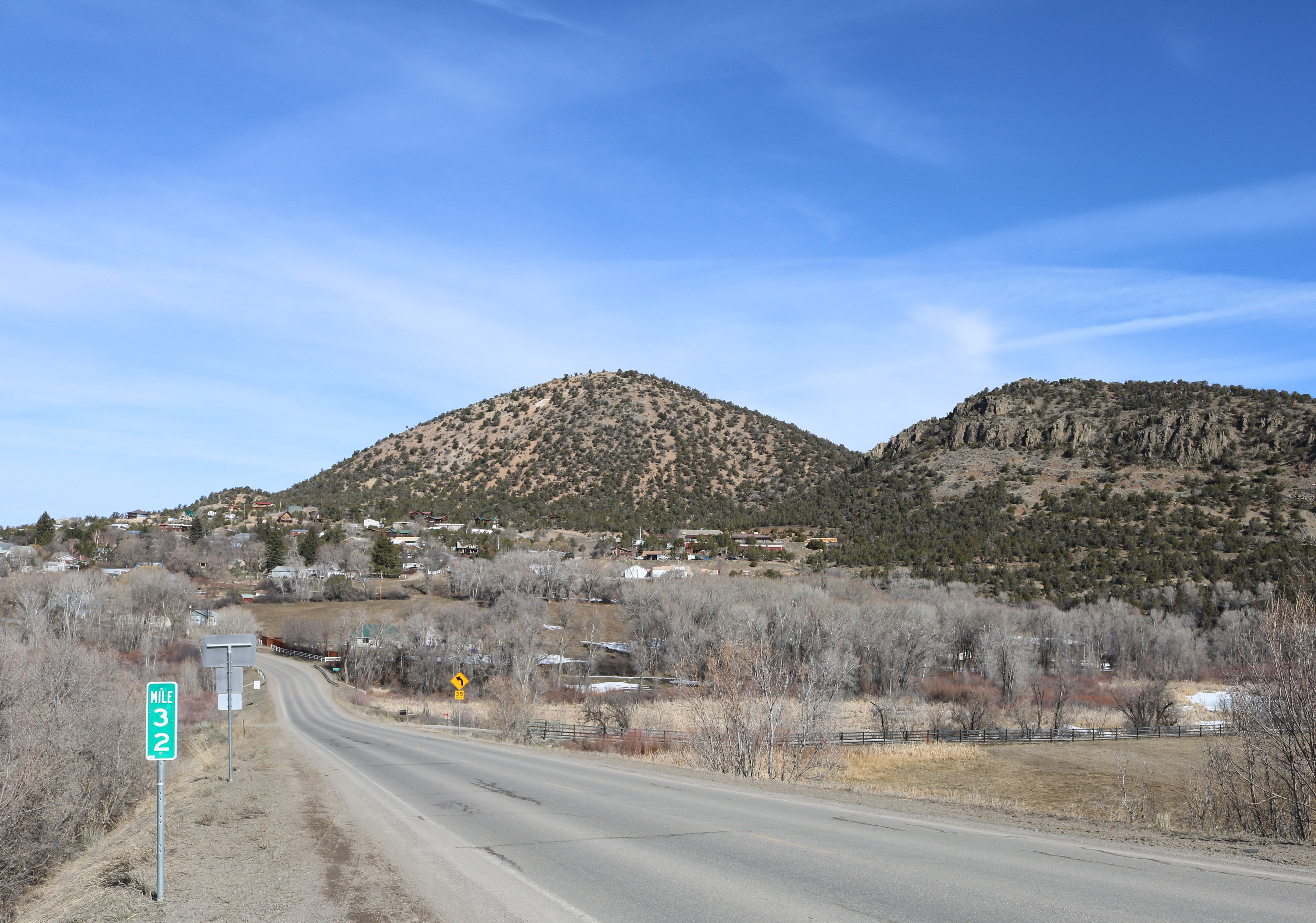 The town of Crawford, Colorado, in Delta County. The symmetrical mountain on the left is Youngs Peak.